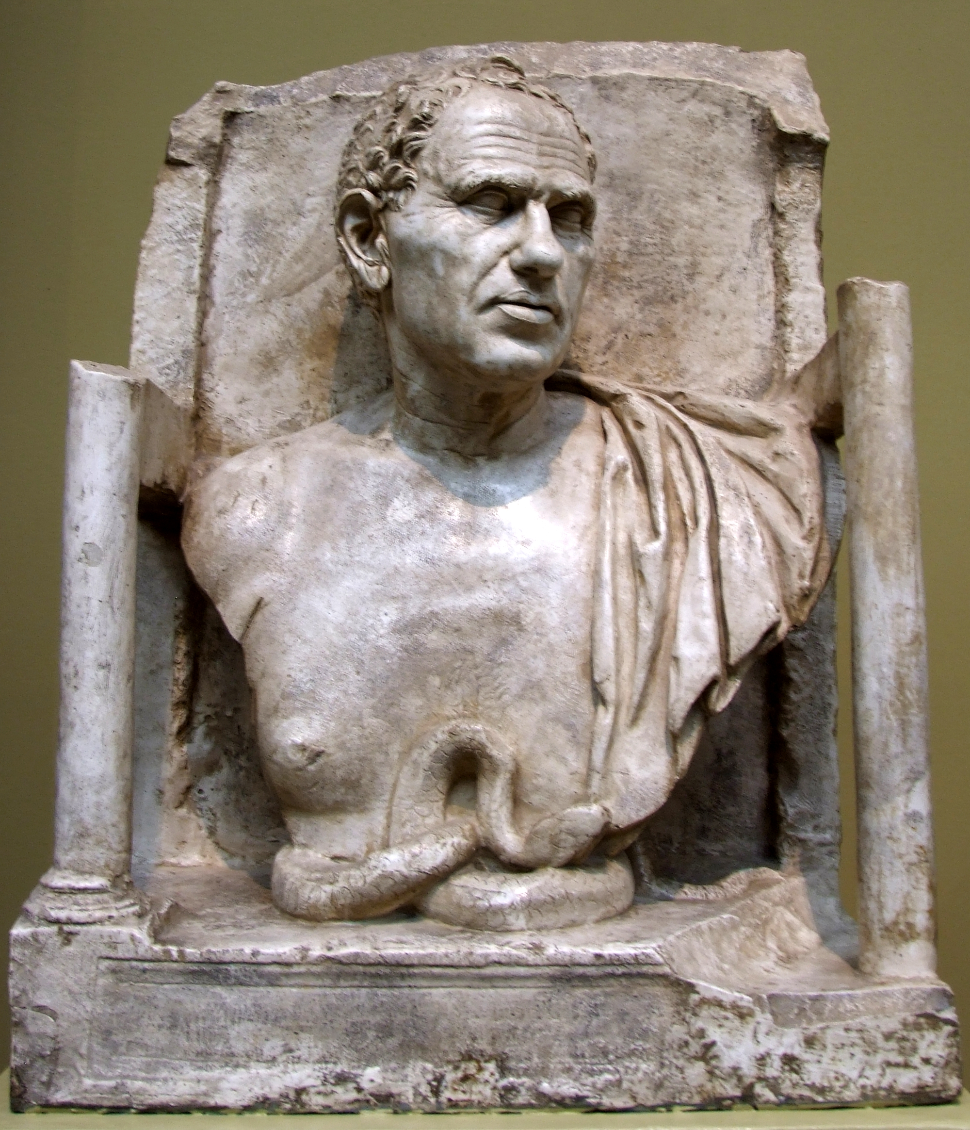 Tomb of Haterii. Bust of man. Cast in Pushkin museum from original in Musei Vaticani, 79-80 AC. Found in 1848 near Porta Maggiore, Roma.